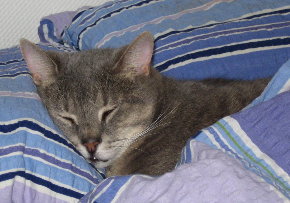 own work from user Abu l-bisse